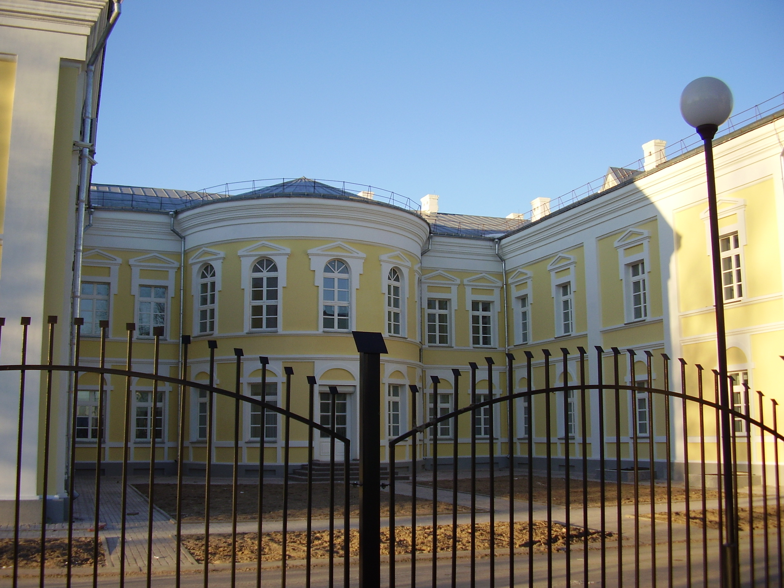 Беларуская (тарашкевіца): Былы палац Пацёмкіна. г. Крычаў This is a photo of Belarusian heritage monument. Reference number: 512Г000479 ( WLM)